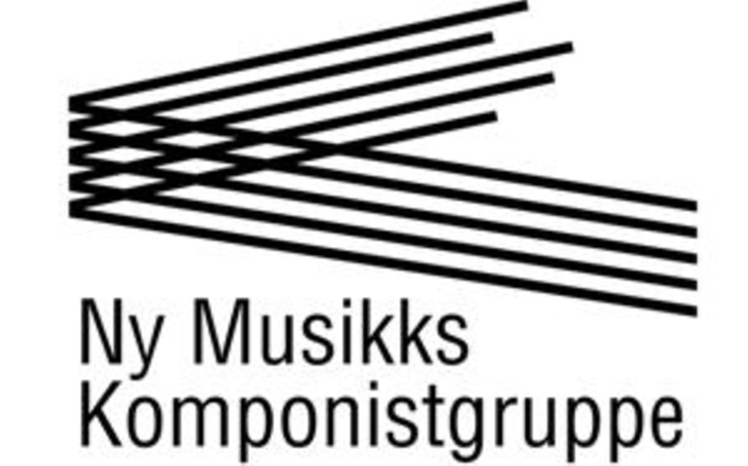 Logo for Ny Musikks Komponistgruppe (NMK)